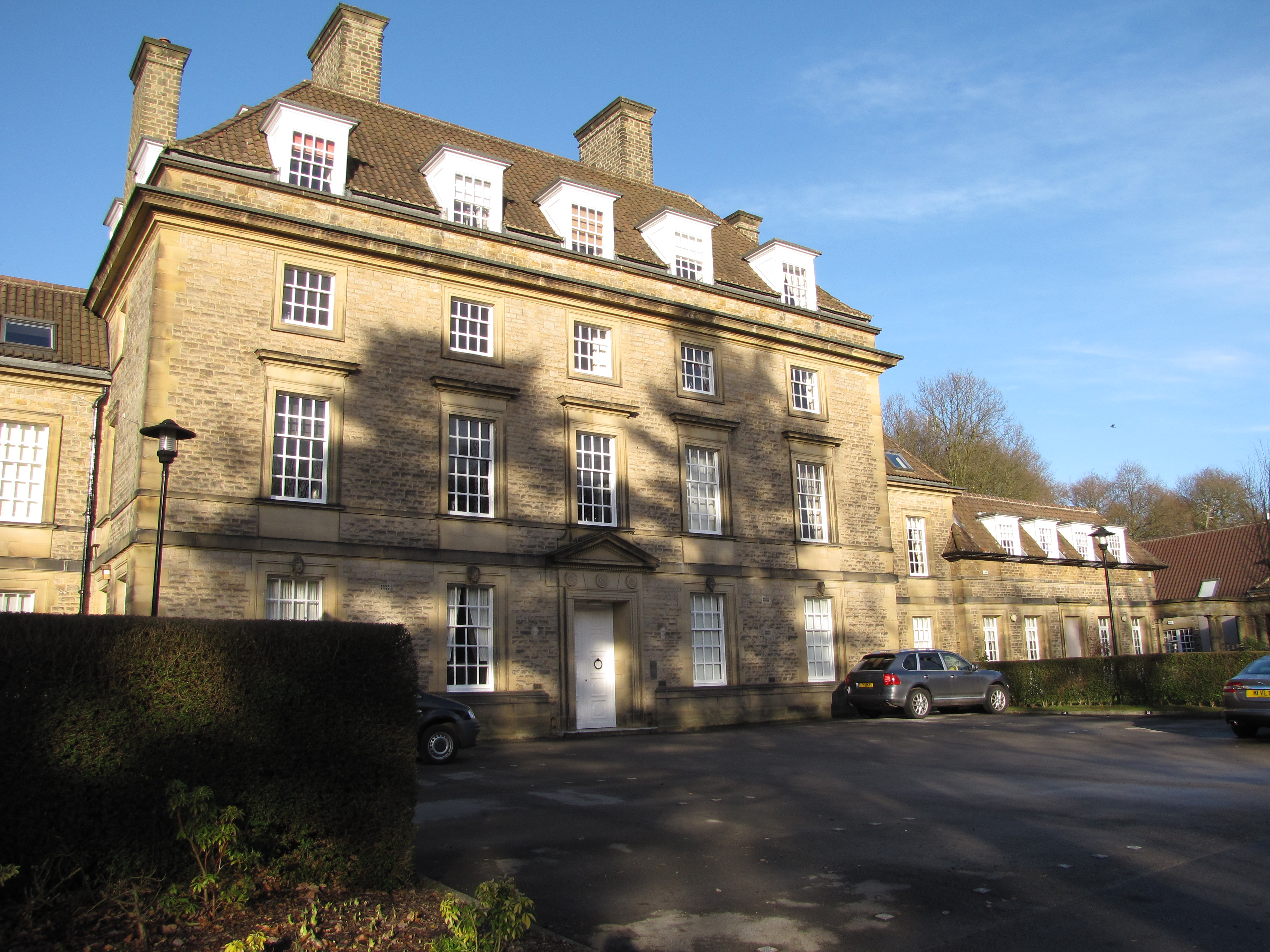 The former King Edward VII Orthopaedic Hospital in the Rivelin Valley, Sheffield, England